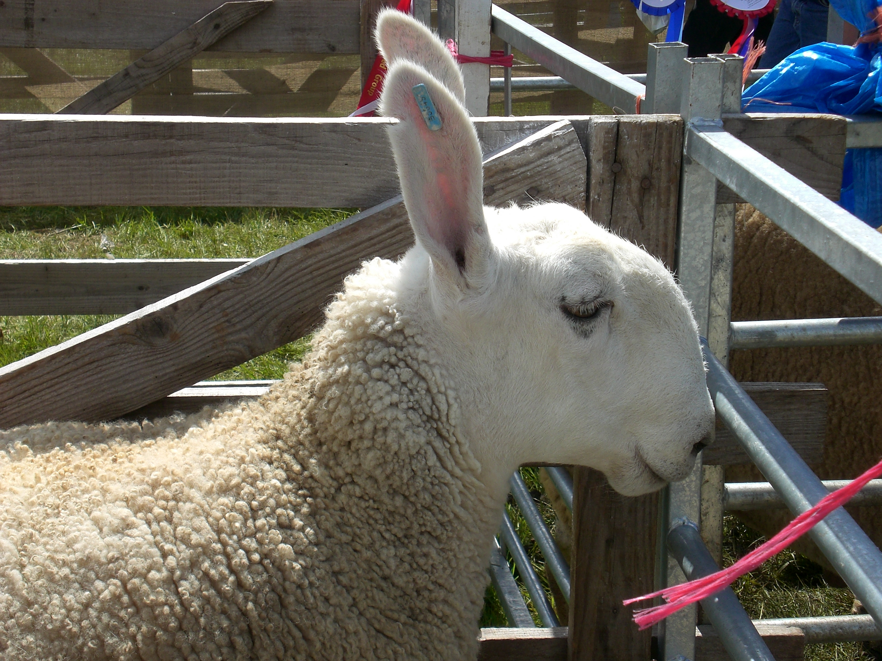 A Border Leicester sheep